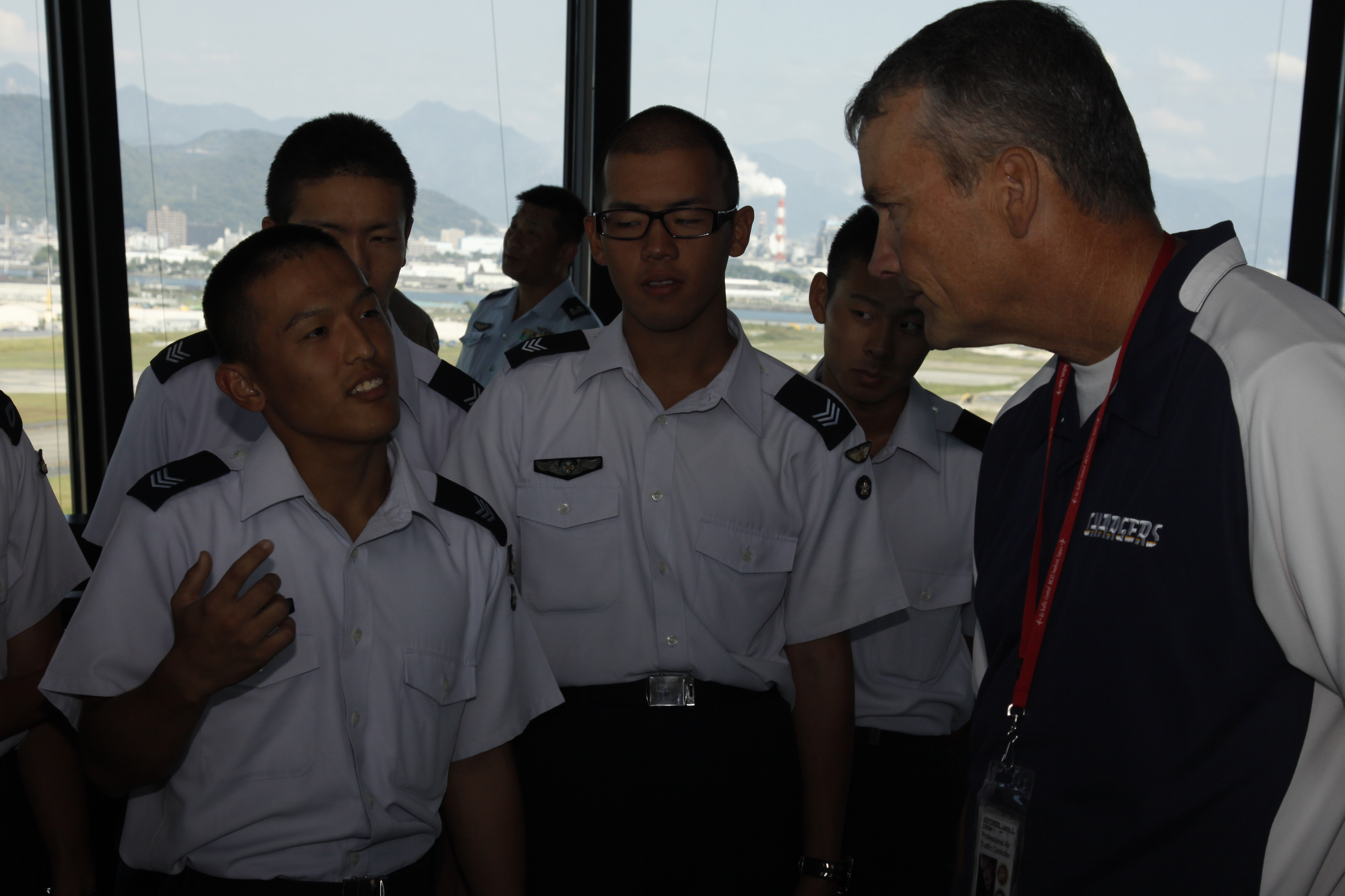 Yatsuka Shoutarou, a Japan Air Self-Defense Force cadet, asked Larry L. Jeffords, an air traffic controller, how Japanese pilots communicate with the air traffic controllers here during a Japanese Observer Exchange Program tour Sept. 27. Opportunities like this tour give future Japanese pilots a chance to understand how conducting exercises between the U.S. and JSDF forces happen.